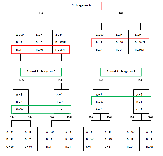 Diagram needed for the wikipedia page "Das schwierigste Rätsel der Welt"